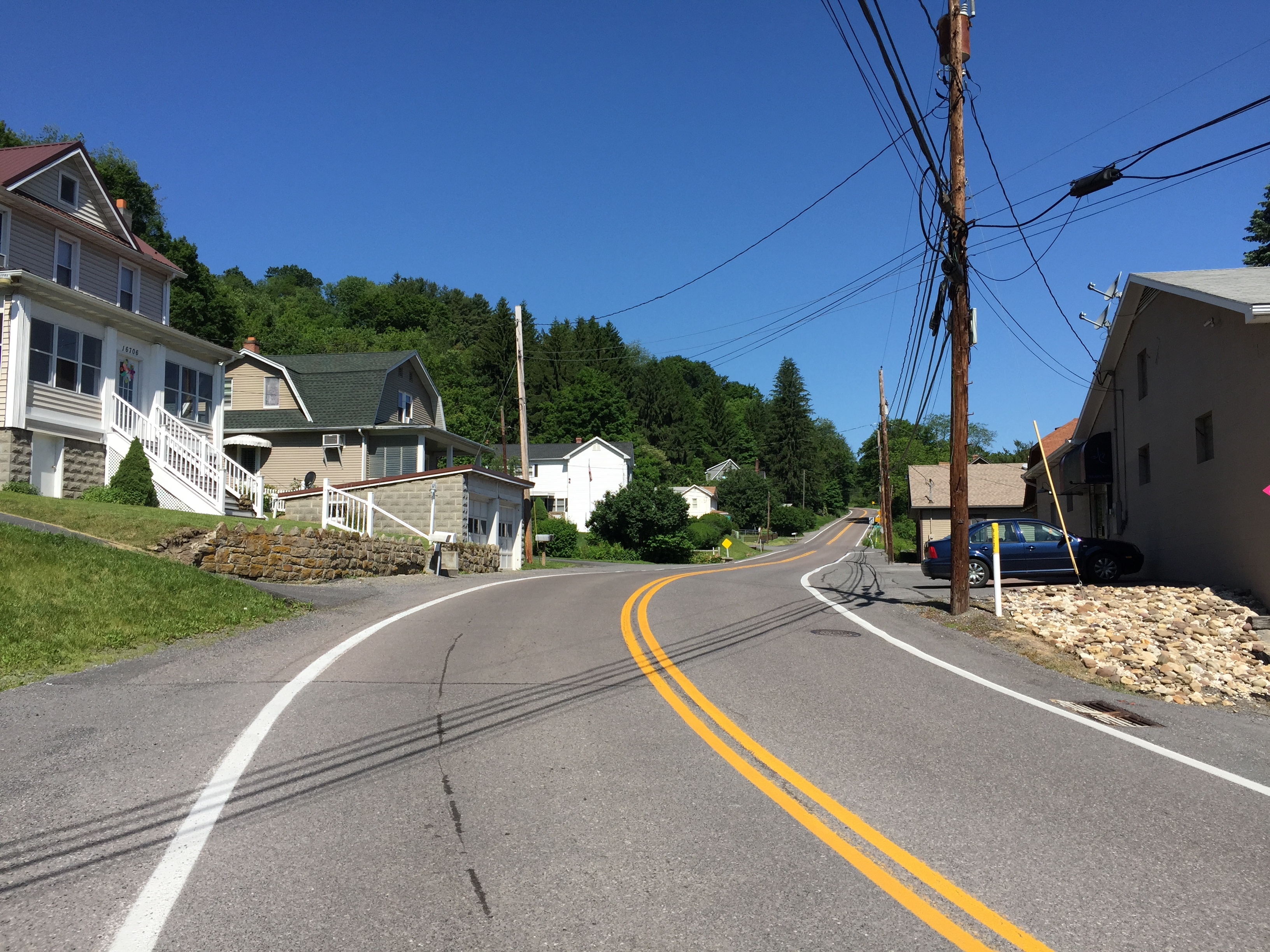 View west along Maryland State Route 743 (Old National Pike) at U.S. Route 40 Alternate (National Pike) in Eckhart Mines, Allegany County, Maryland